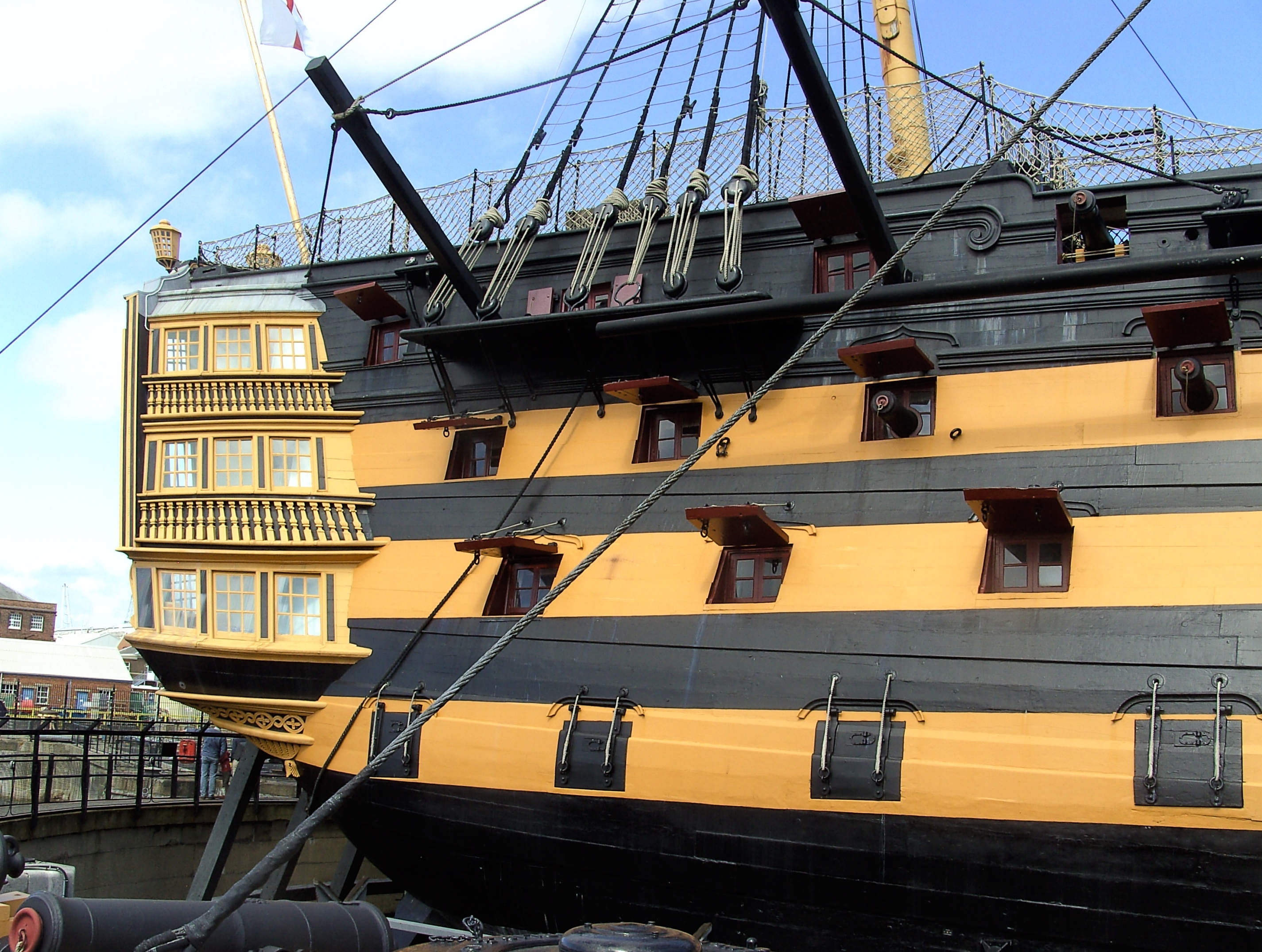 The HMS Victory (embrasures) in Portsmouth.